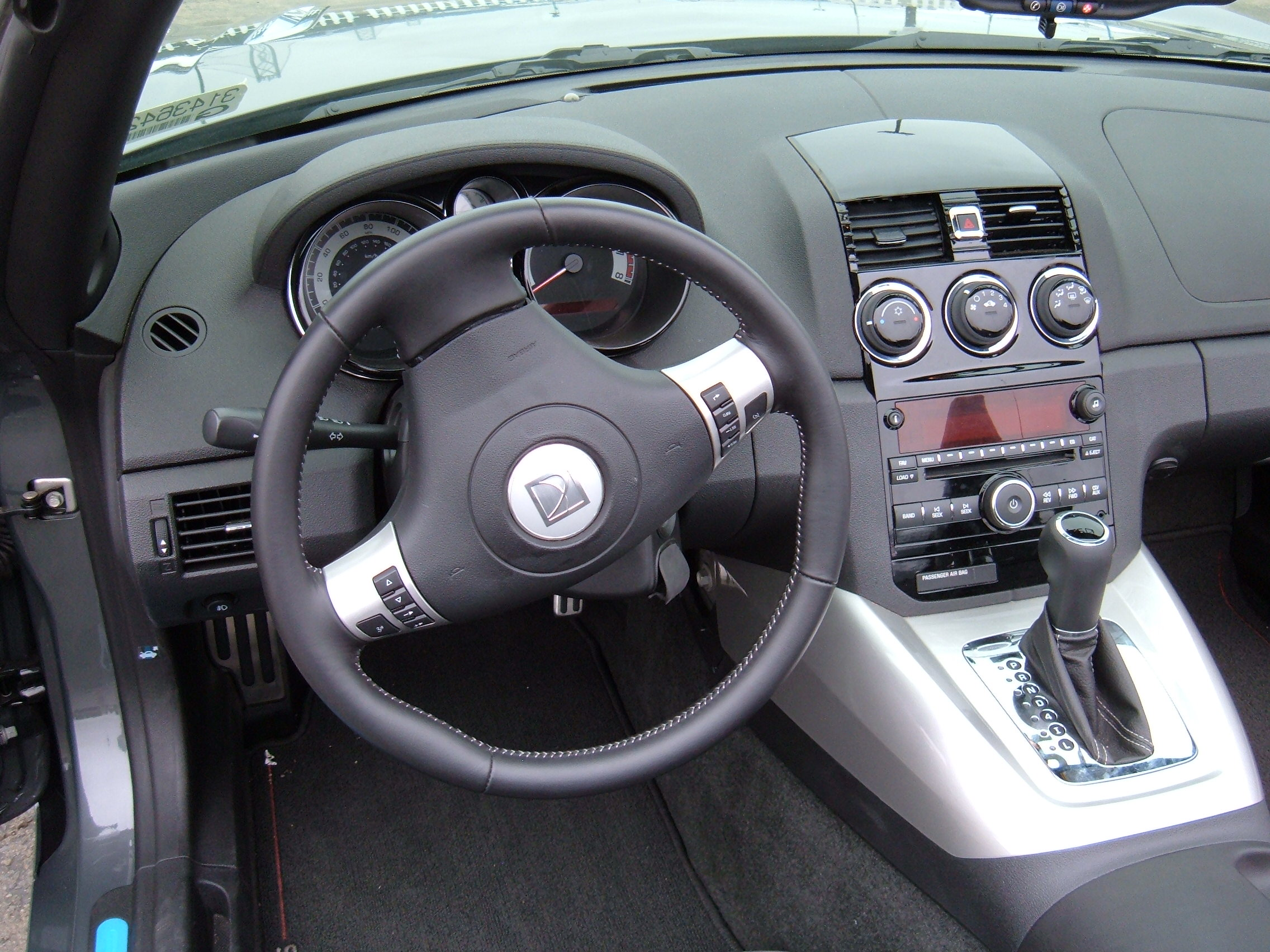 The cockpit of a 2009 Saturn Sky Red Line in San Francisco.